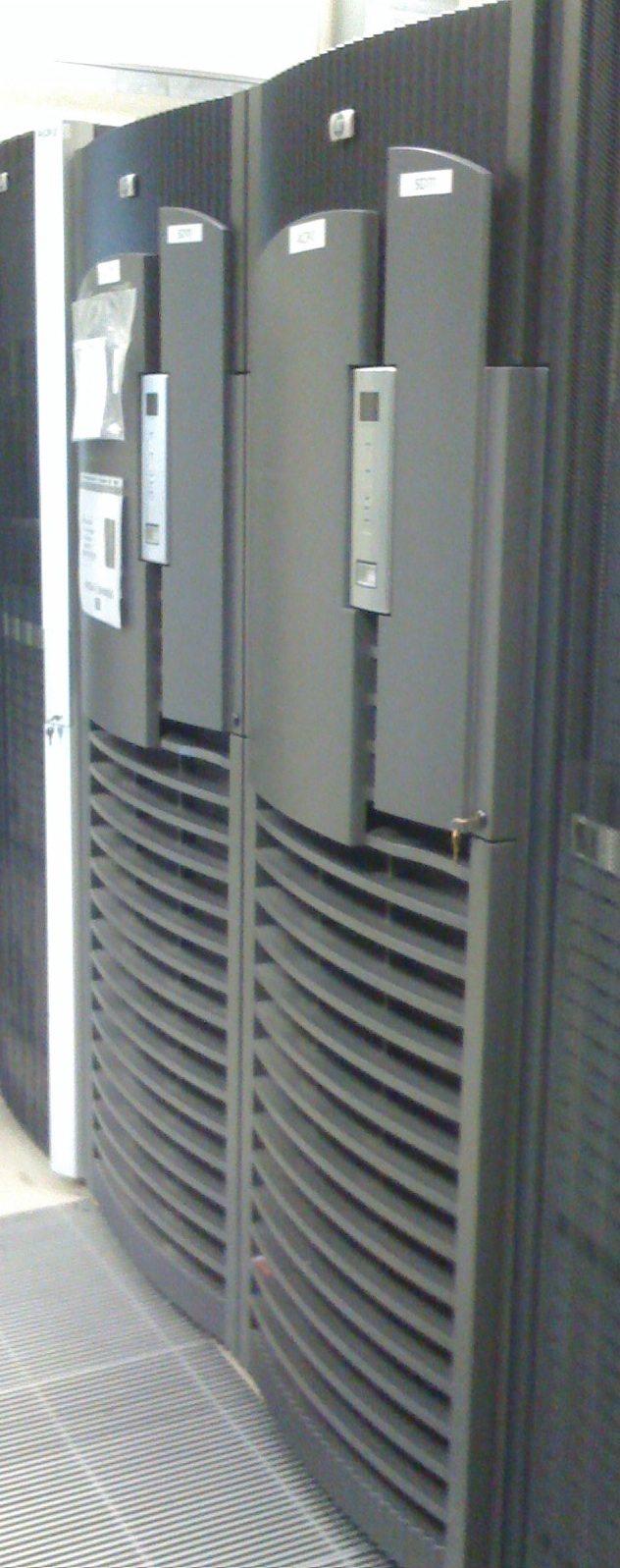 HP Superdome, Itanium model, photographed by me inside one of the datacenters of a very big italian bank